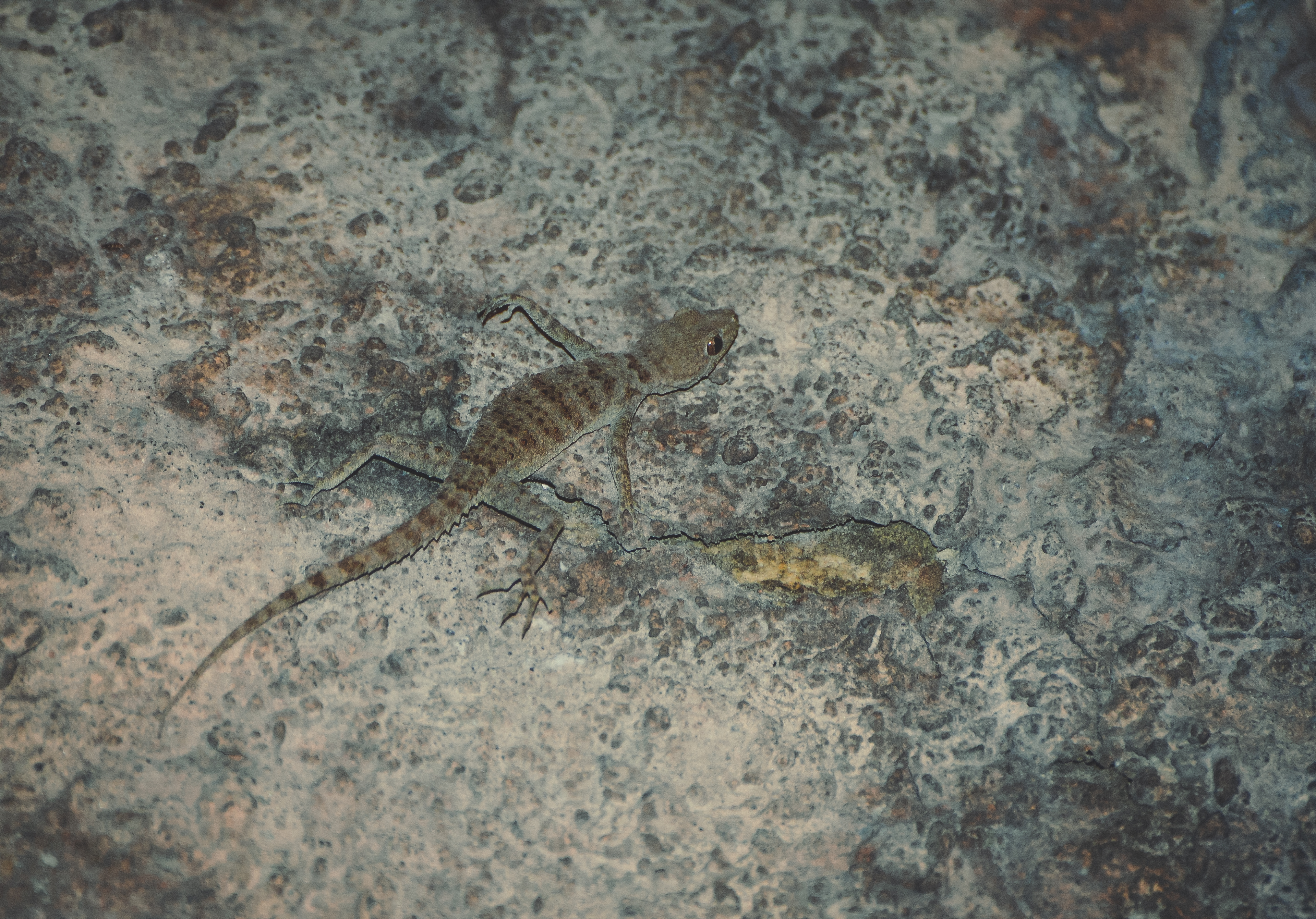 A Thin-Toed Gecko Tenuidactylus bogdanovi Nazarov et Poyarkov (Reptilia: Gekkonidae) on a concrete wall of a dwelling house. The only European synantropic population of this naturalized adventive Central Asian (Turanian) species resides at historic "Moldavanka" district of Odessa city, Ukraine (46o28`14.03``N, 30o43`15.87 E) ) (Duz’ et al., 2012; Krasylenko and Kukushkin, 2017).